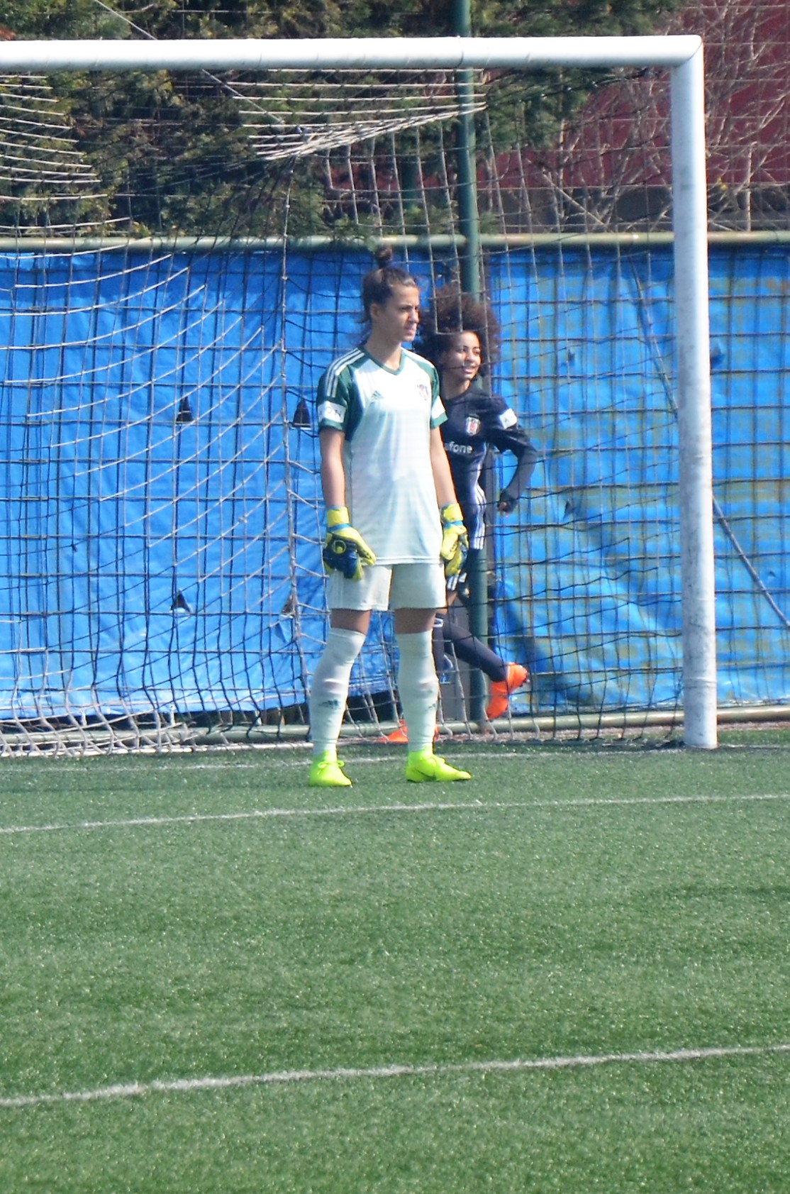 Gamze Nır Yaman of Beşiktaş J.K. in the 2018-19 Turkish Women's First League.